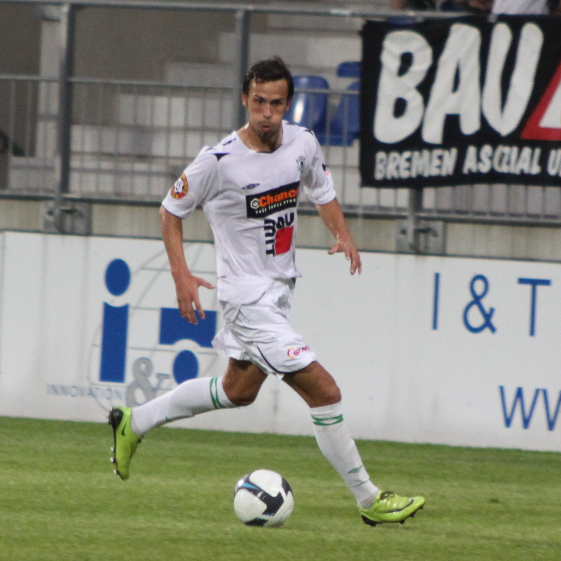 Jan Vošahlík - FK Baumit Jablonec